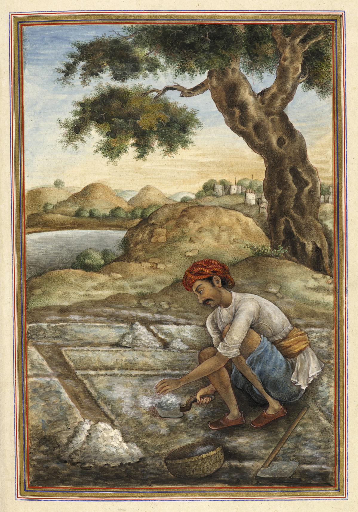 Luniya, a caste of salt-diggers.